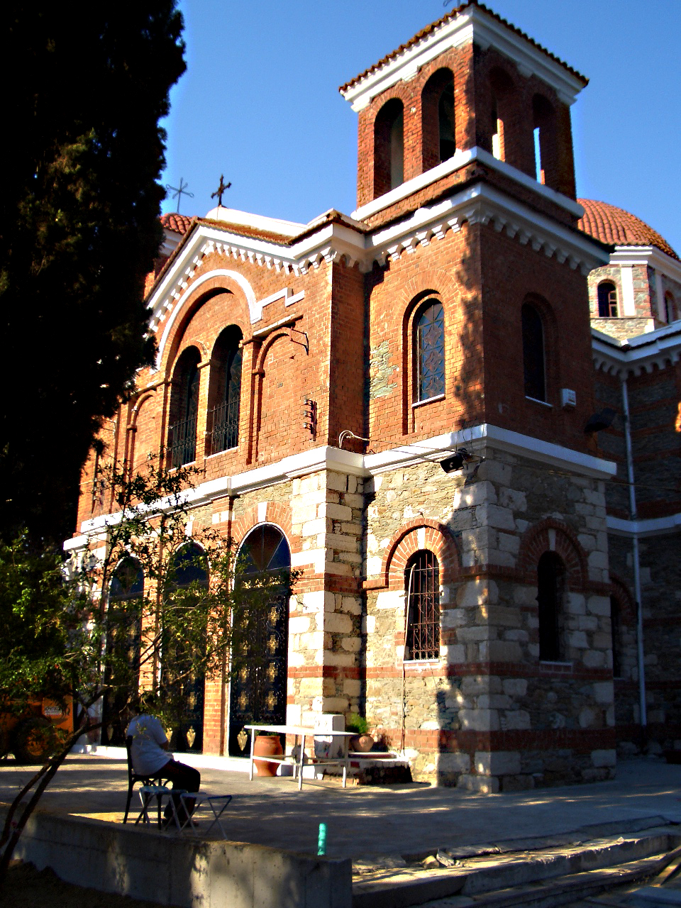 Graveyard of Saint Paraskevi, Lagada Street - Thessaloniki. View of the Church